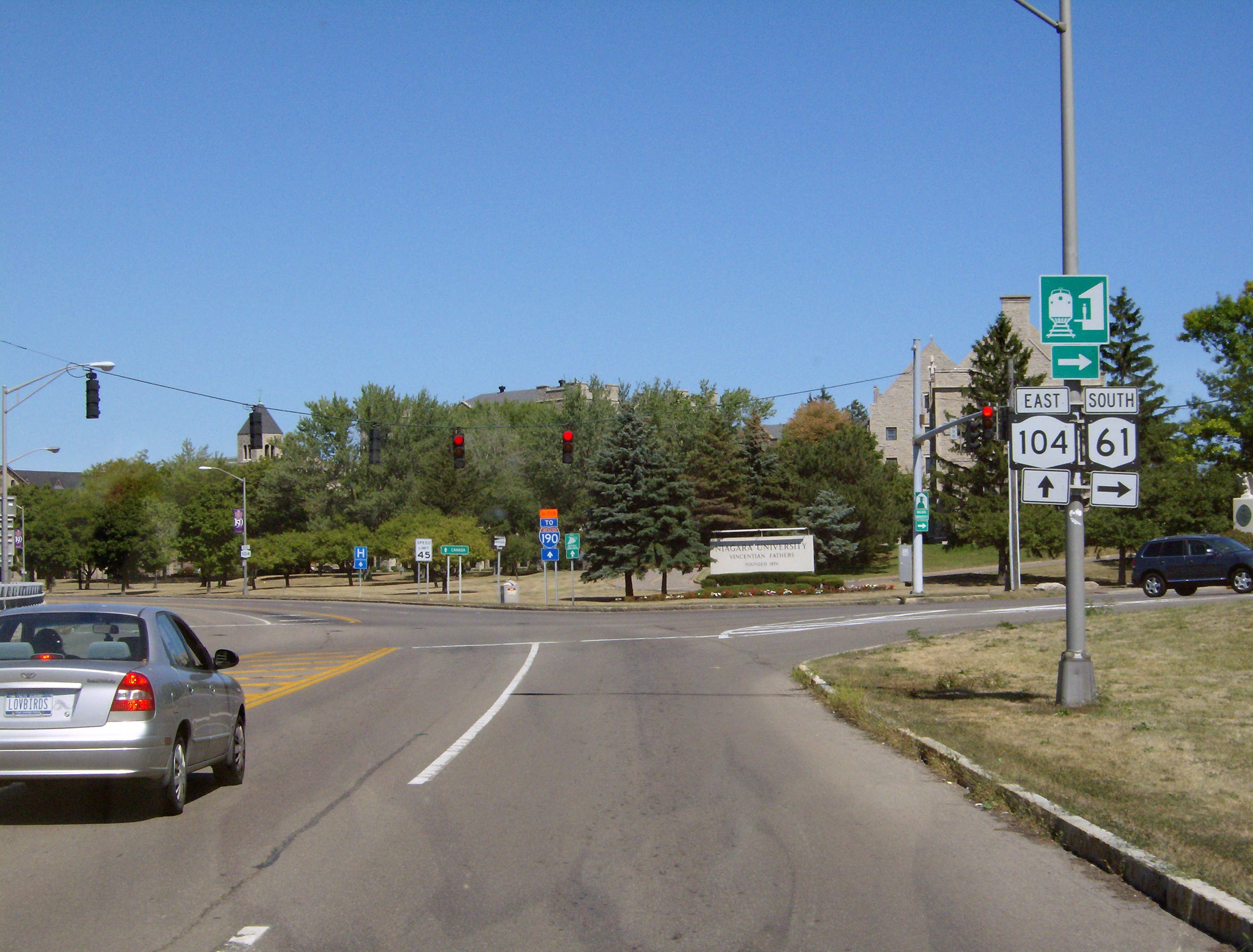 The northern terminus of New York State Route 61 as seen from New York State Route 104 eastbound.